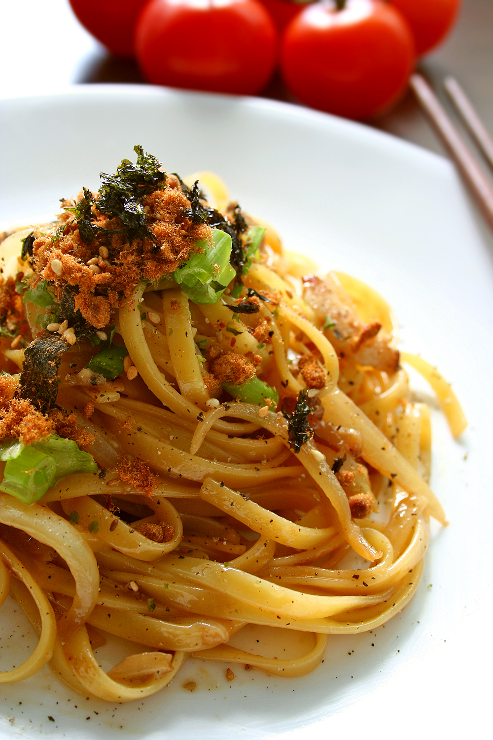 An Asian Style "Italian" Pasta.